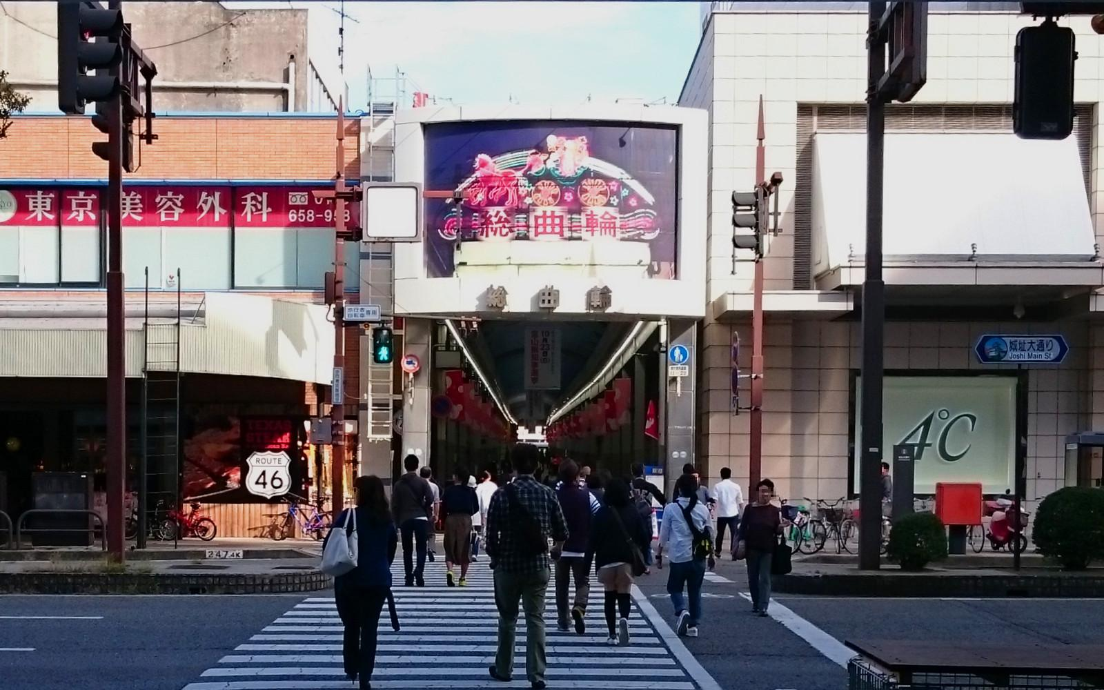 Sogawa Shopping Street